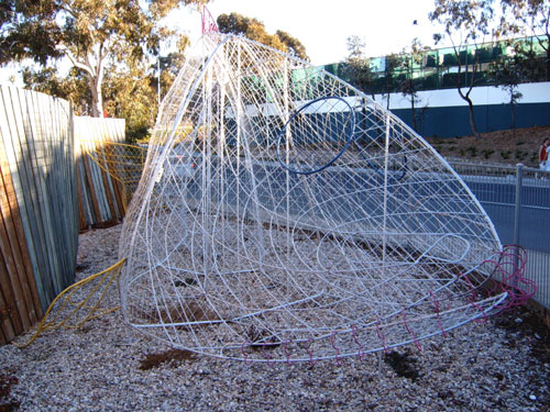 Albert is a sculpture at the Belconnen Fresh Food Markets. Commissioned by the Government of the Australian Capital Territory for the 1996 Floriade, Albert was donated to the Belconnen Markets in June 1998 and erected their by staff and students of the Canberra Institute of Technology (CIT). Sculptors: Group II Sculptors (Tony Steele, Paloma Ramos, Helen Ferguson, Sarah Milgate, Kate Murphy, Claire Martin, Madeleine Nevue) I took this picture on 21 May 2006. Peter Ellis 06:32, 21 May 2006 (UTC)